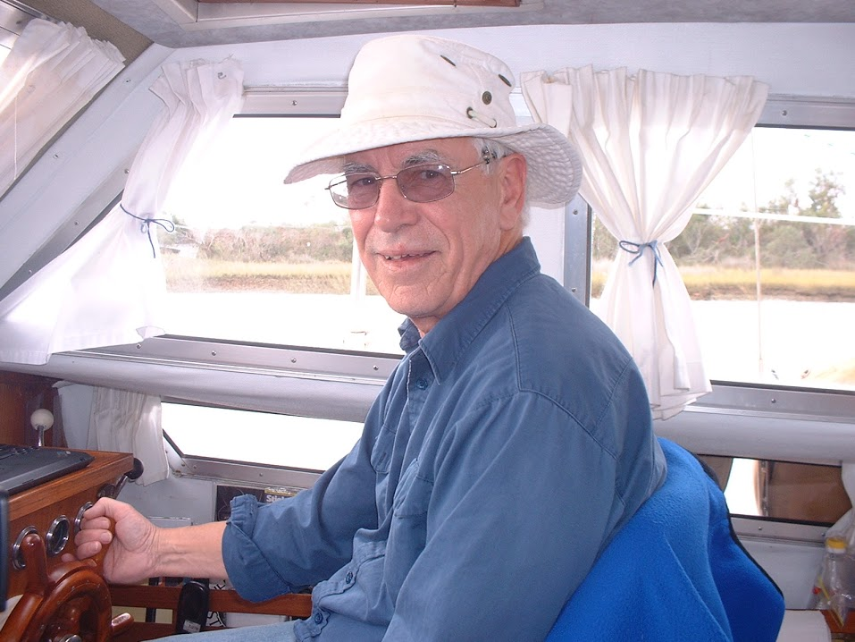 Photo of Canadian writer Silver Donald Cameron on board the ketch he sailed from Cape Breton to the Bahamas in 2004.